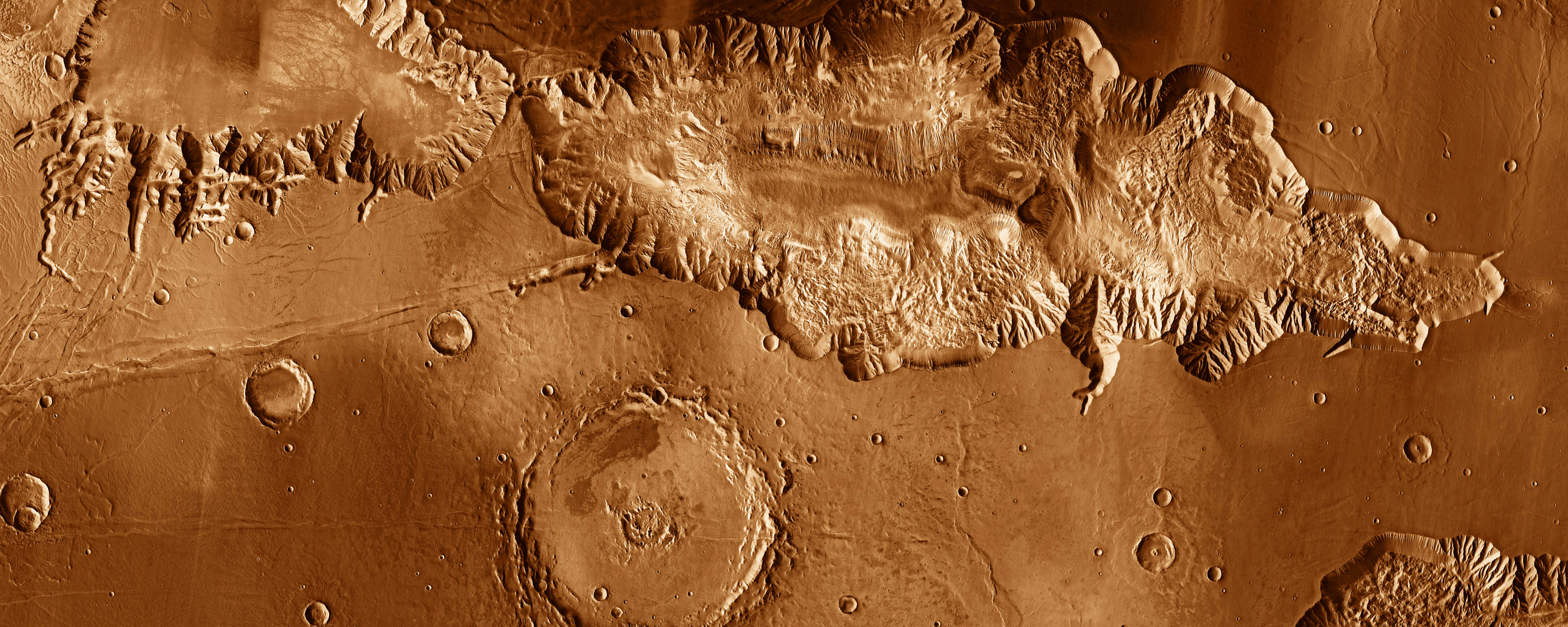 View of most of Hebes Chasma (upper center and right), with a portion of Ophir Chasma at lower right, and the southern part of Echus Chasma at upper left. Perrotin Crater is just left of lower center. This image was obtained by cropping a massive 23,711 × 11,856 pixel mosaic of NASA images, and adjusting in hue and saturation. The original caption for the mosaic reads in part as follows: This mosaic image of Valles Marineris - colored to resemble the martian surface - comes from the Thermal Emission Imaging System (THEMIS), a visible-light and infrared-sensing camera on NASA's Mars Odyssey orbiter. Mars Odyssey was built by Lockheed Martin and the mission is operated by the Jet Propulsion Laboratory. Built from more than 500 daytime infrared photos, the mosaic shows the whole valley in more detail than any previous composite photo. Despite the valley's huge extent - including its western extension through Noctis Labyrinthus, it reaches some 3,000 kilometers (2,000 miles) long - the smallest details visible in the image are about the size of a football field: 100 meters (328 feet).